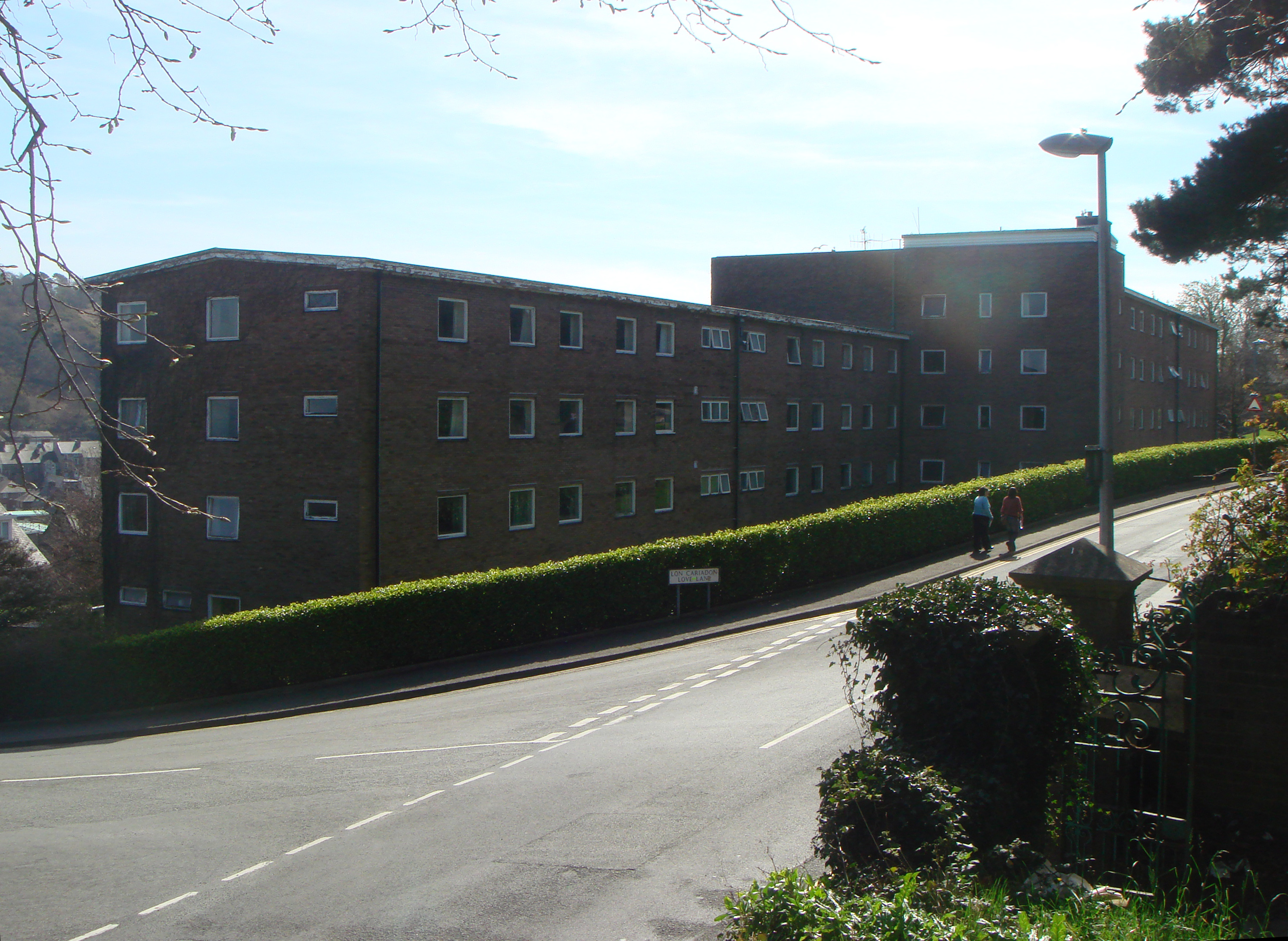 Photograph of the John Morris Jones (JMJ) halls of residence at Bangor University.